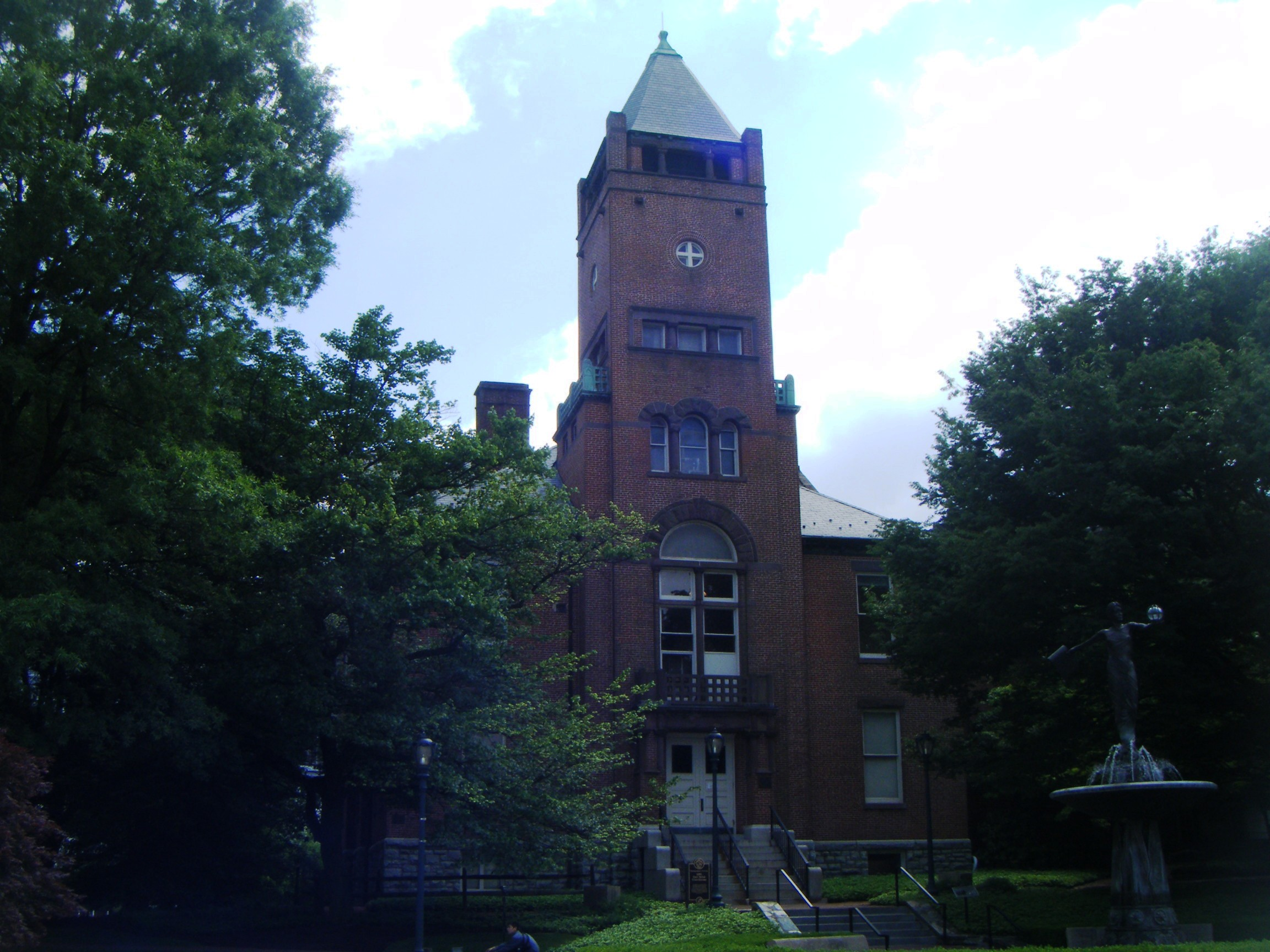 The old Montgomery County courthouse, built in 1891. It is located in Rockville, Maryland